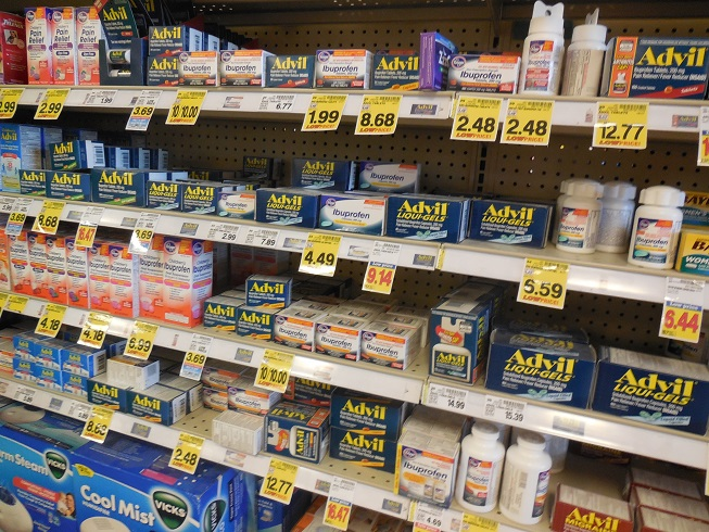 Pain Relievers at Kroger